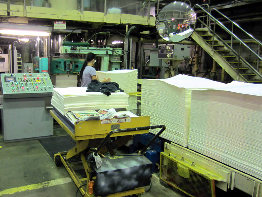 Northern Bleached Softwood Kraft (NBSK) pulp being strapped into bales for export at the Harmac Pacific Mill, Nanaimo, BC